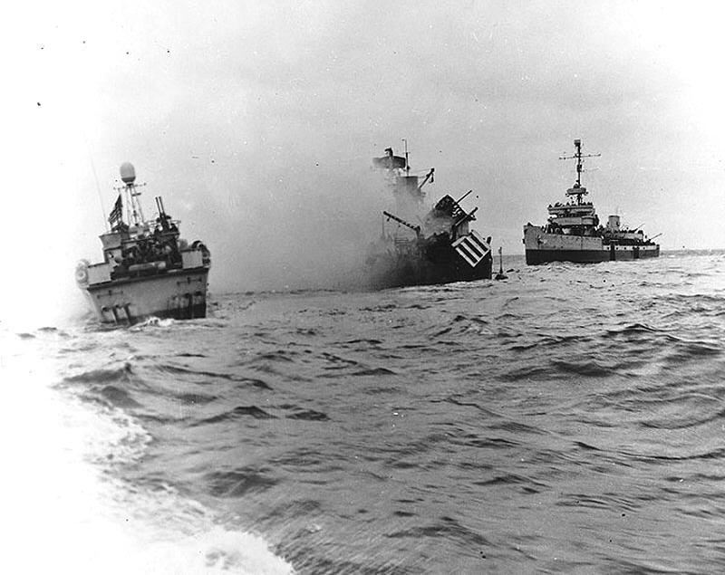 USS Tide sinking, soon after hitting a mine off "Utah" Beach, on 7 June 1944, during the Normandy landings. Note her broken back, with smoke pouring from amidships.